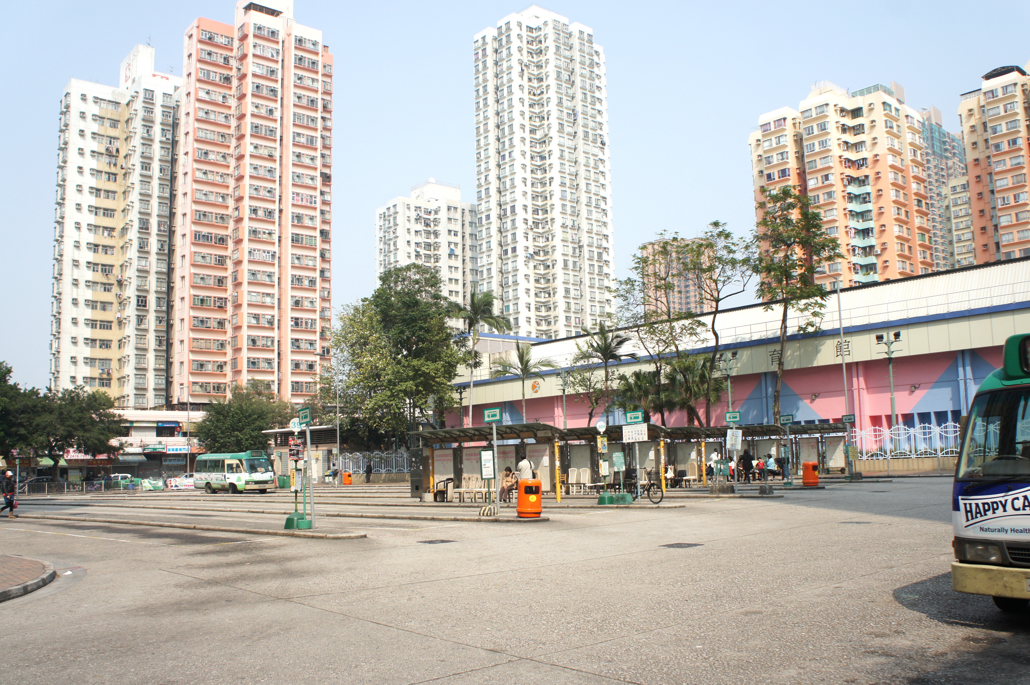 Fung Cheung Road Public Light Bus Terminus, Yuen Long, New Territories, Hong Kong.